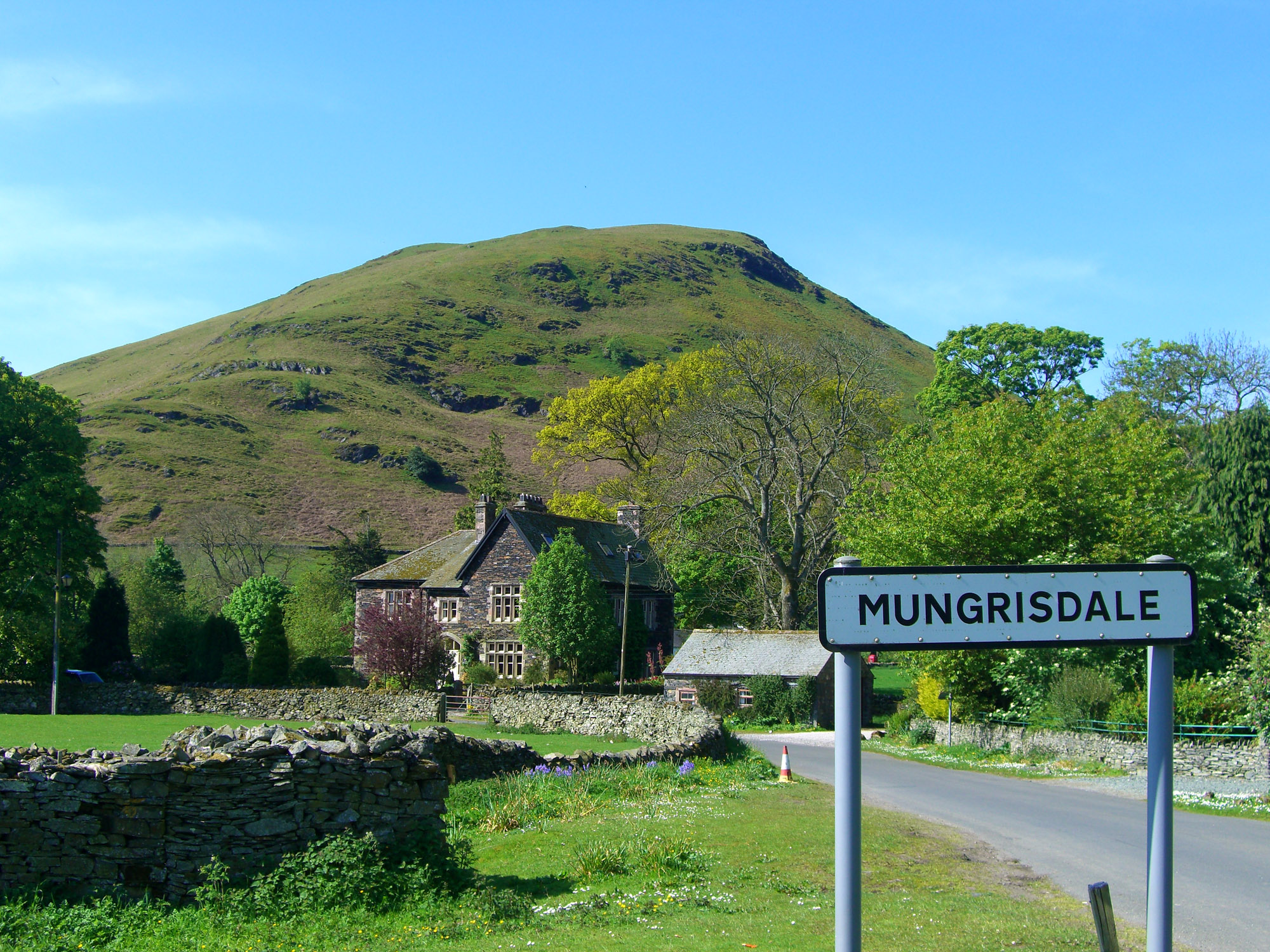 Souther Fell seen from the village of Mungrisedale in the English Lake District